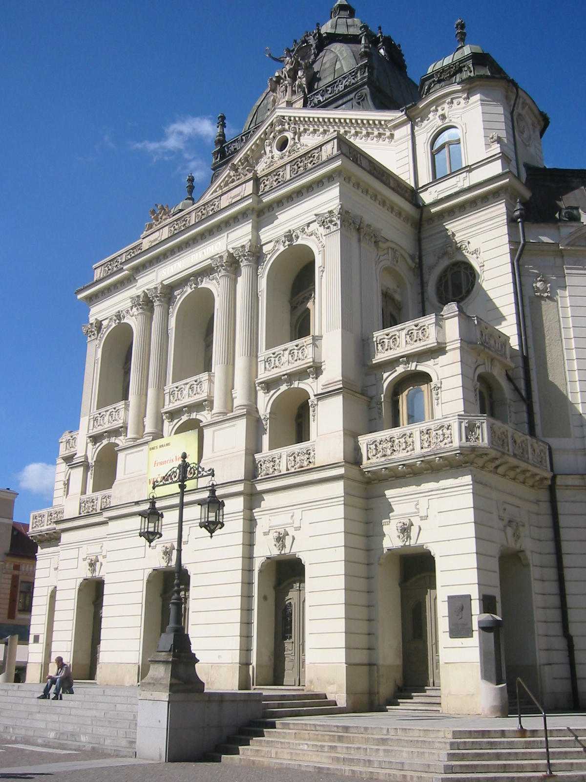 Slovakia, Košice, State Theater on Main Street